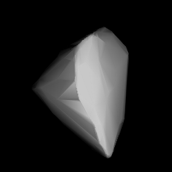 3D convex shape model of 1129 Neujmina, computed using light curve inversion techniques. J. Hanuš, J. Ďurech, M. Brož, B. D. Warner (June 2011). "A study of asteroid pole-latitude distribution based on an extended set of shape models derived by the lightcurve inversion method". Astronomy and Astrophysics 530: A134. ISSN 0004-6361. arXiv